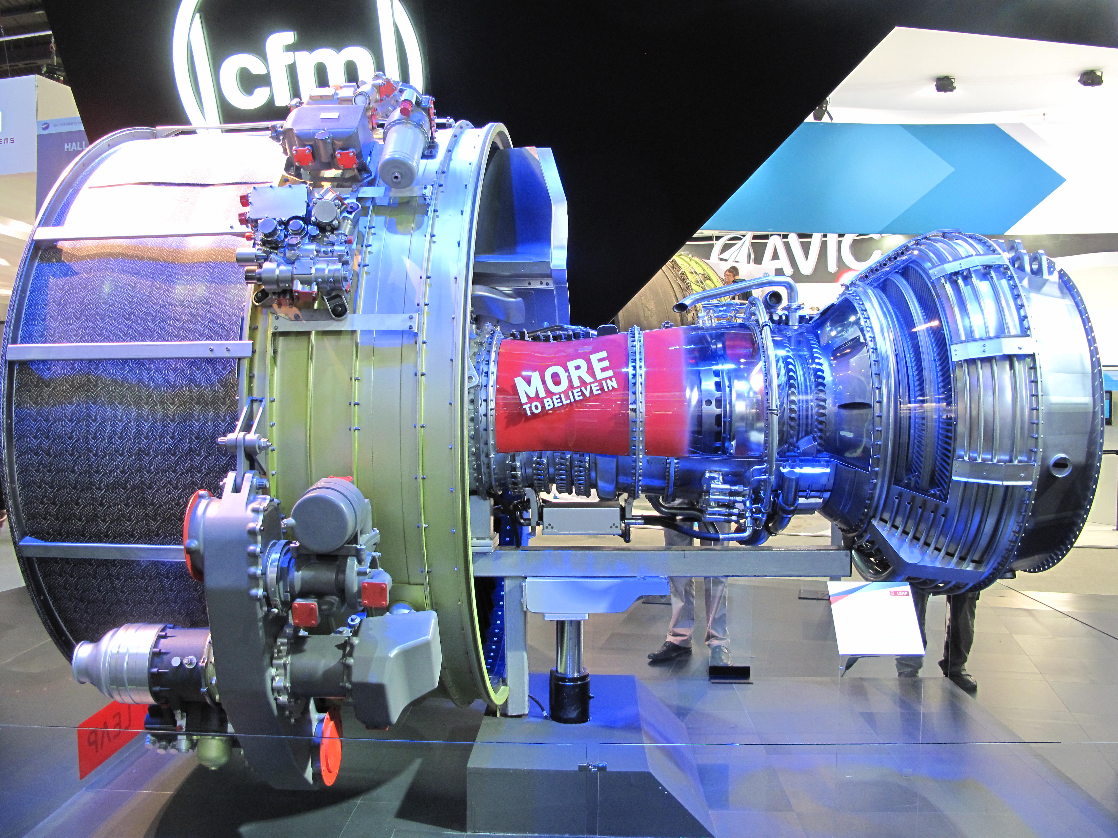 Turbofan engine CFM Leap-X at the Paris Air Show 2013